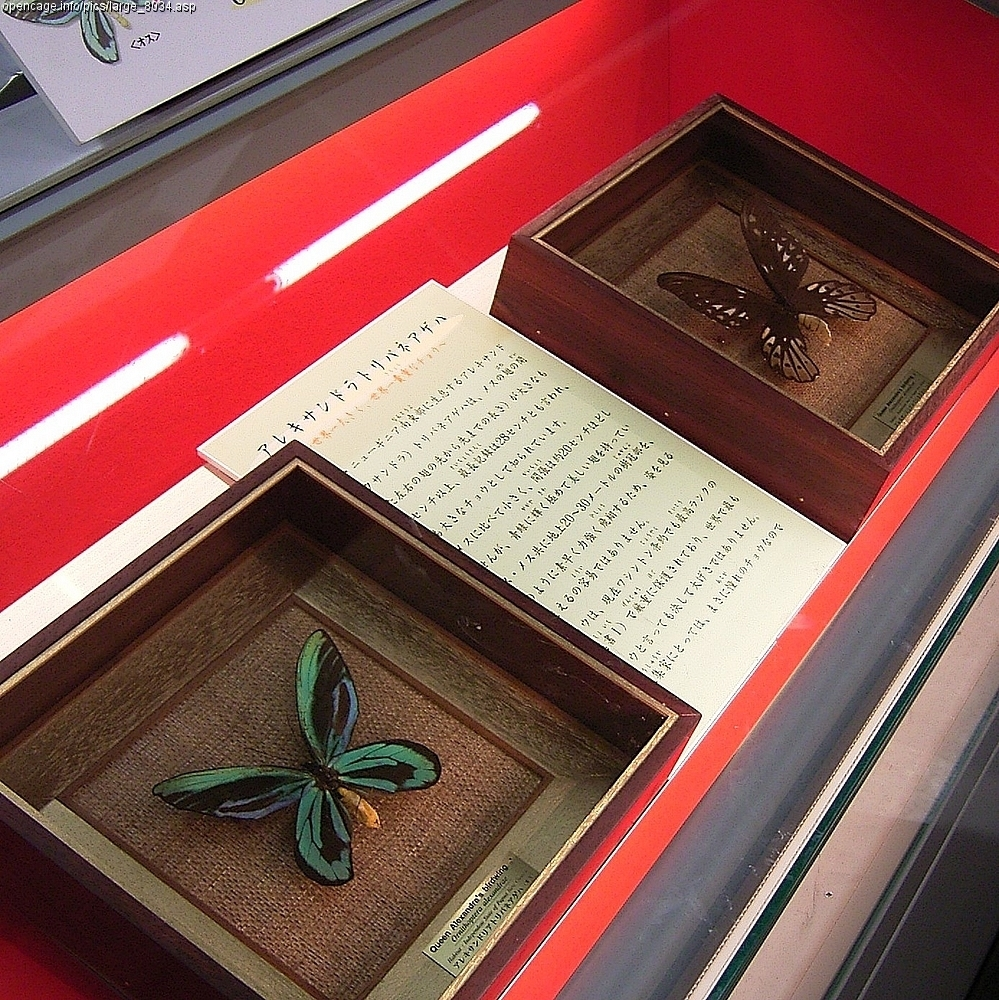 Queen Alexandra's birdwing, Itami insect museum, Itami, Hyogo, Japan.